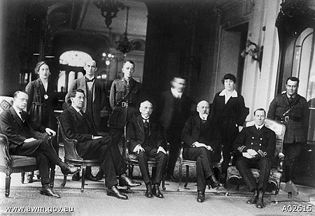 The Australian delegation to the Paris Peace Conference at the end of World War I. From left to right: Lieutenant P E Deane (secretary to Billy Hughes), Miss Wood (typist), Sir Robert Garran (Solicitor-General of Australia), W E Corrigan (messenger), Captain H S Gullett (press officer), Billy Hughes (Prime Minister of Australia), R Mungovan (secretary to Sir Joseph Cook), Sir Joseph Cook (Minister for the Navy), Miss Carter (typist), Lieutenant Commander John Latham (Commander, Naval Intelligence), Lieutenant F W Eggleston (assistant to Sir Robert Garran)